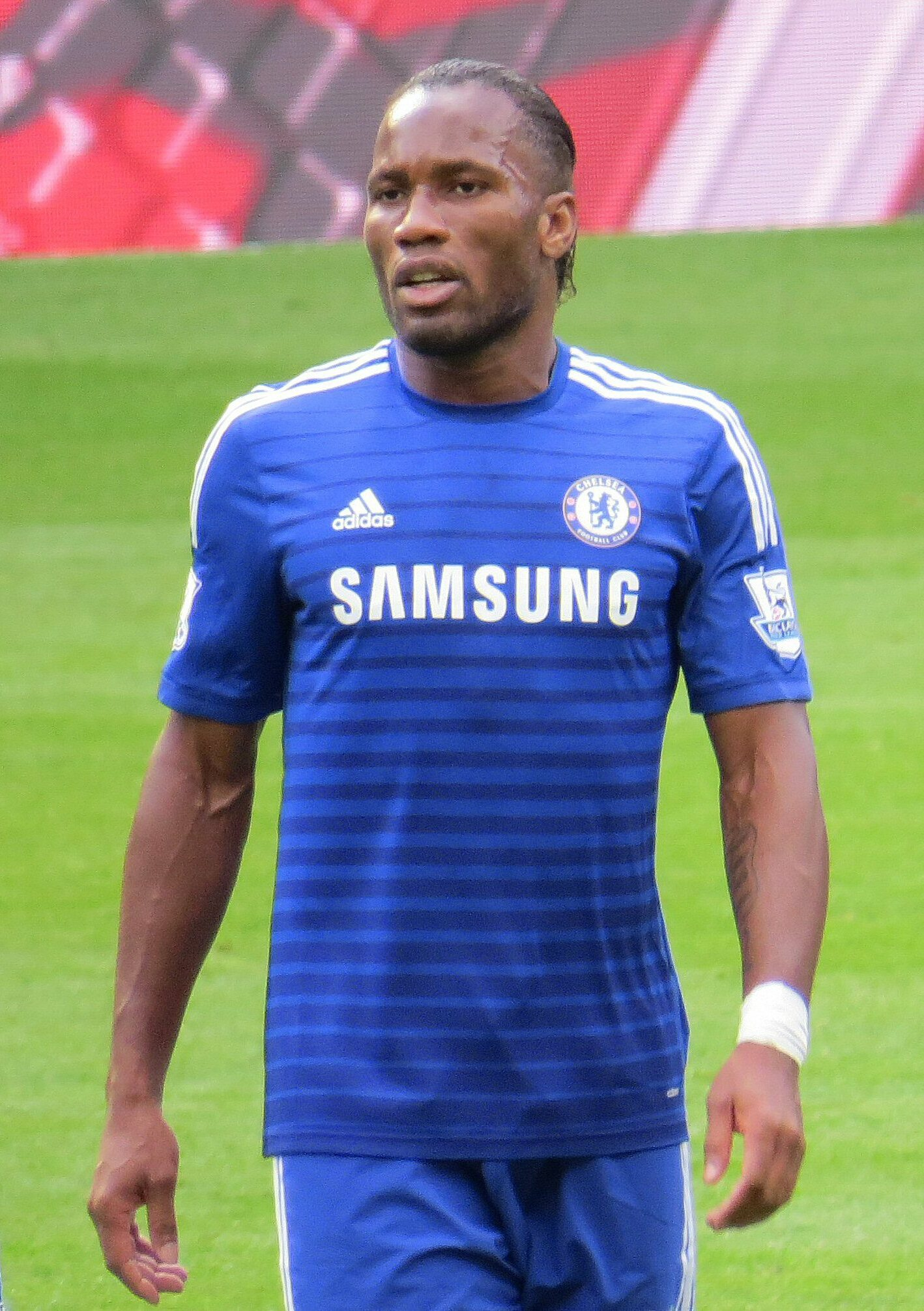 Didier Drogba on his return debut v Leicester City Aug 2014